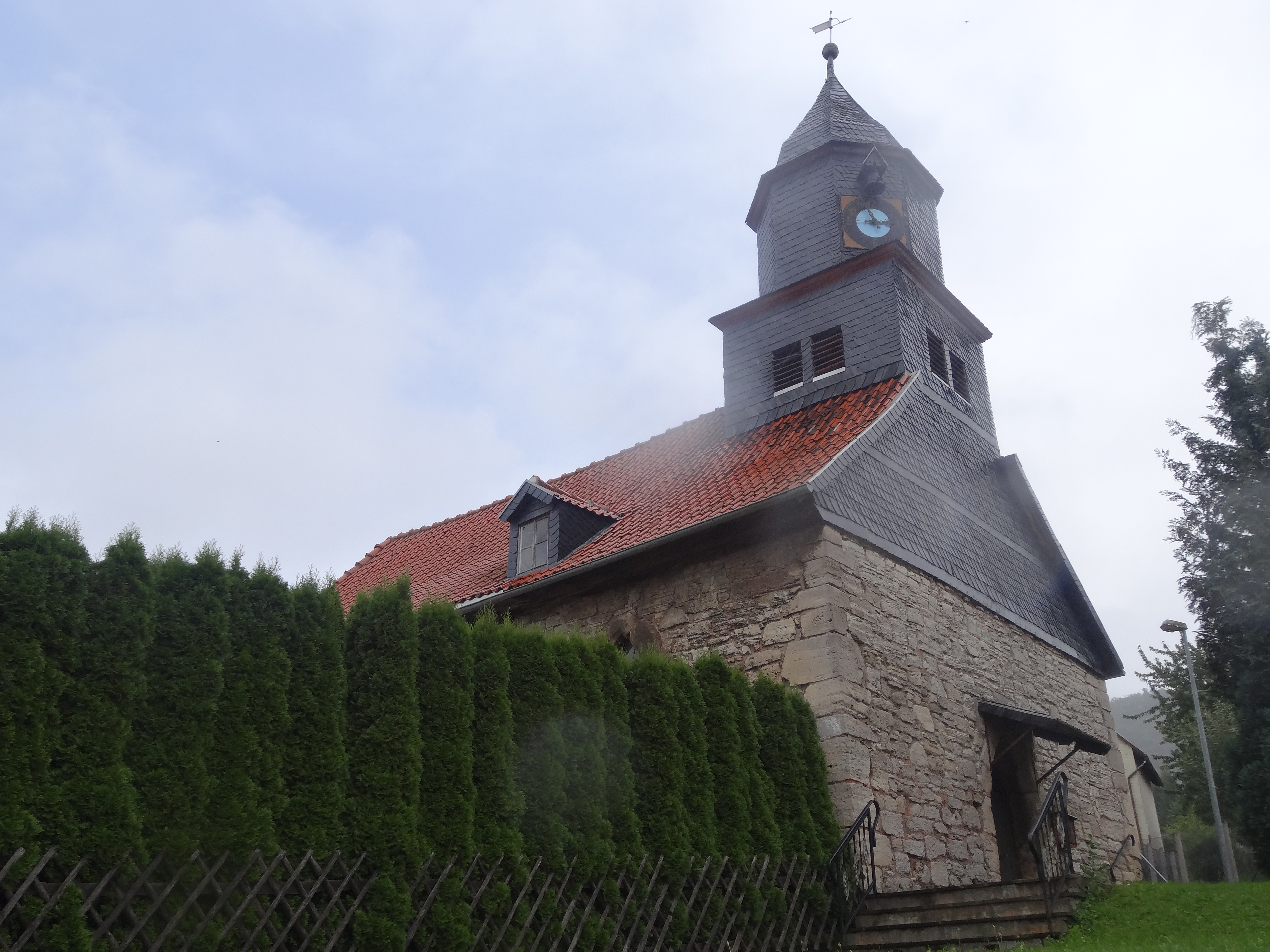 Church in Kraja, Thuringia, Germany